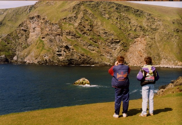 The wreck of the MV Braer The Braer went ashore at Garths Ness on 5th January 1993. A combination of gale forces winds and the very light crude meant that the environmental impact was much less than feared, although there are, as far as I am aware, still restrictions on shellfish landings from areas on the west coast of Shetland 15 years later. Ironically, the Braer was en route from Norway to Quebec and had not called in at Shetland's Sullom Voe Oil Terminal.